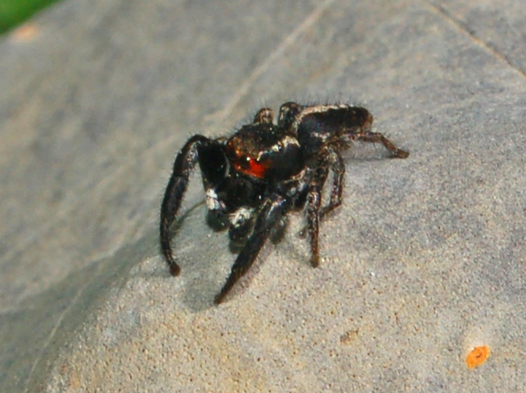 Pellenes seriatus - male in Torriglia, Genova, Italy